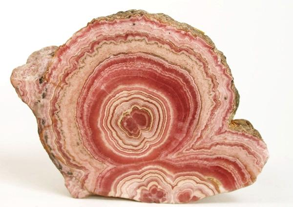 Rhodochrosite Locality: Capillitas Mine, Andalgalá, Catamarca, Argentina (Locality at ) Size: 6.4 x 6.0 x 2.0 cm. A classic, slabbed and polished rhodochrosite stalactite with striking and beautiful banding from the famous finds at the Capillitas Mine of Argentina. The color variations of the rhodochrosite bands are captivating. Very little new material has been forthcoming from this mine in years. Excellent older material, from the 1960s or 1970s. Ex. Robert Fender Collection.